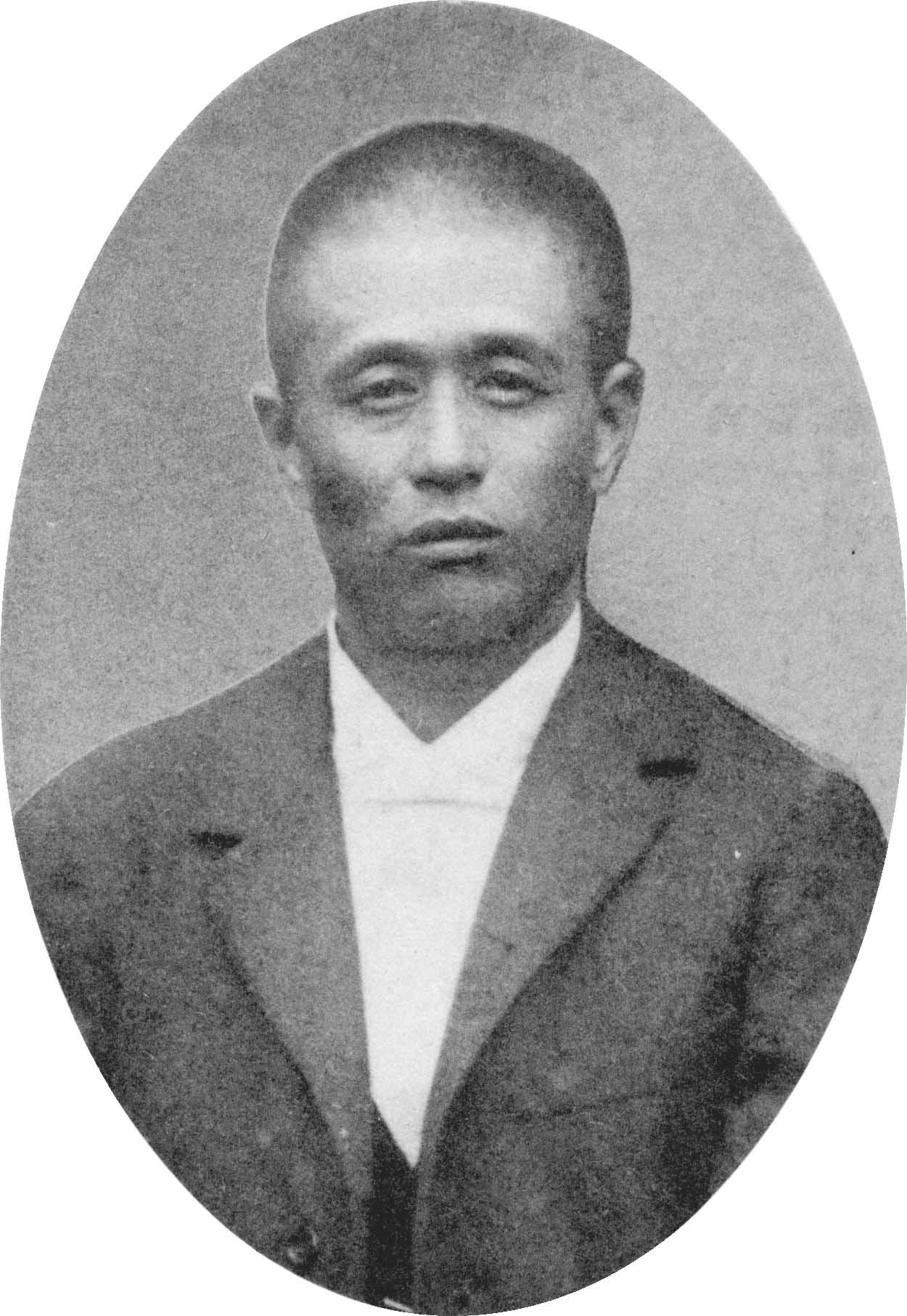 Fujisawa Rikitarō, Acting Dean of the Faculty of Science at Imperial University of Tokyo.